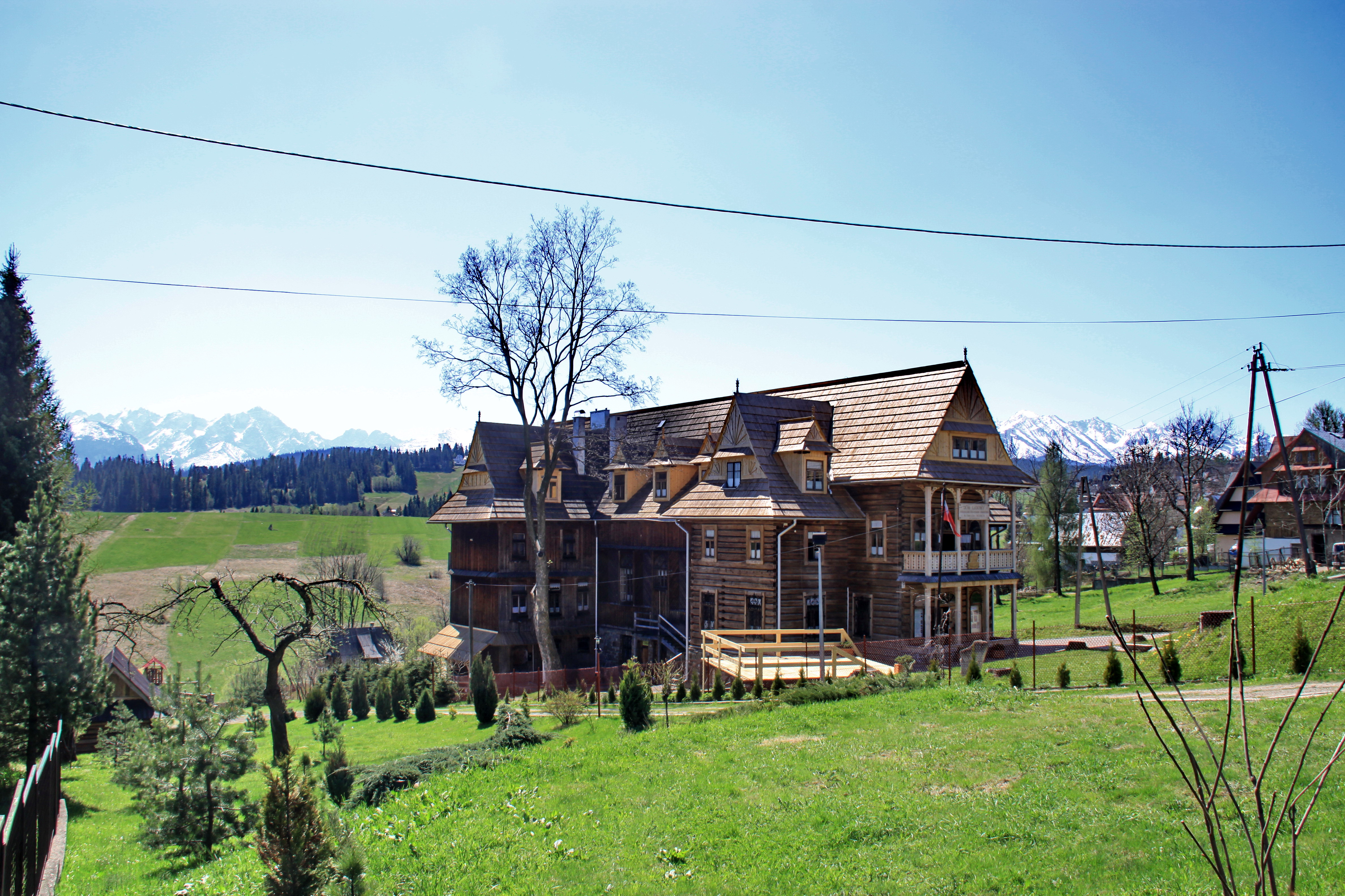 Bukowina. People's House, st. 87th Kosciuszko